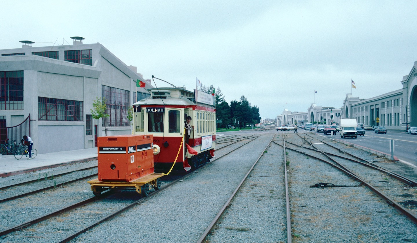 During the 1987 San Francisco Historic Trolley Festival, ex-Porto (Portugal) car 189 is southbound on the Embarcadero just south and east of Chestnut Street and Pier 29, during a six-week demonstration streetcar service along the Embarcadero (Sep. 11 to Oct. 17, 1987). Because there was not yet any regular streetcar service here at the time, the demo service used disused freight tracks of the San Francisco Belt Railroad, and the electricity to power the car's motor came from a diesel-powered generator on a cart attached to the streetcar's south/east end. In this photo, car 189 was coming towards the camera, pushing the generator. When headed in the opposite direction, it towed the generator. The building in the lefthand background is the Belt Railroad's 1913-built Engine House (which was a roundhouse); it was later converted into an office building, and one of its tenants is a design firm named "Roundhouse One".